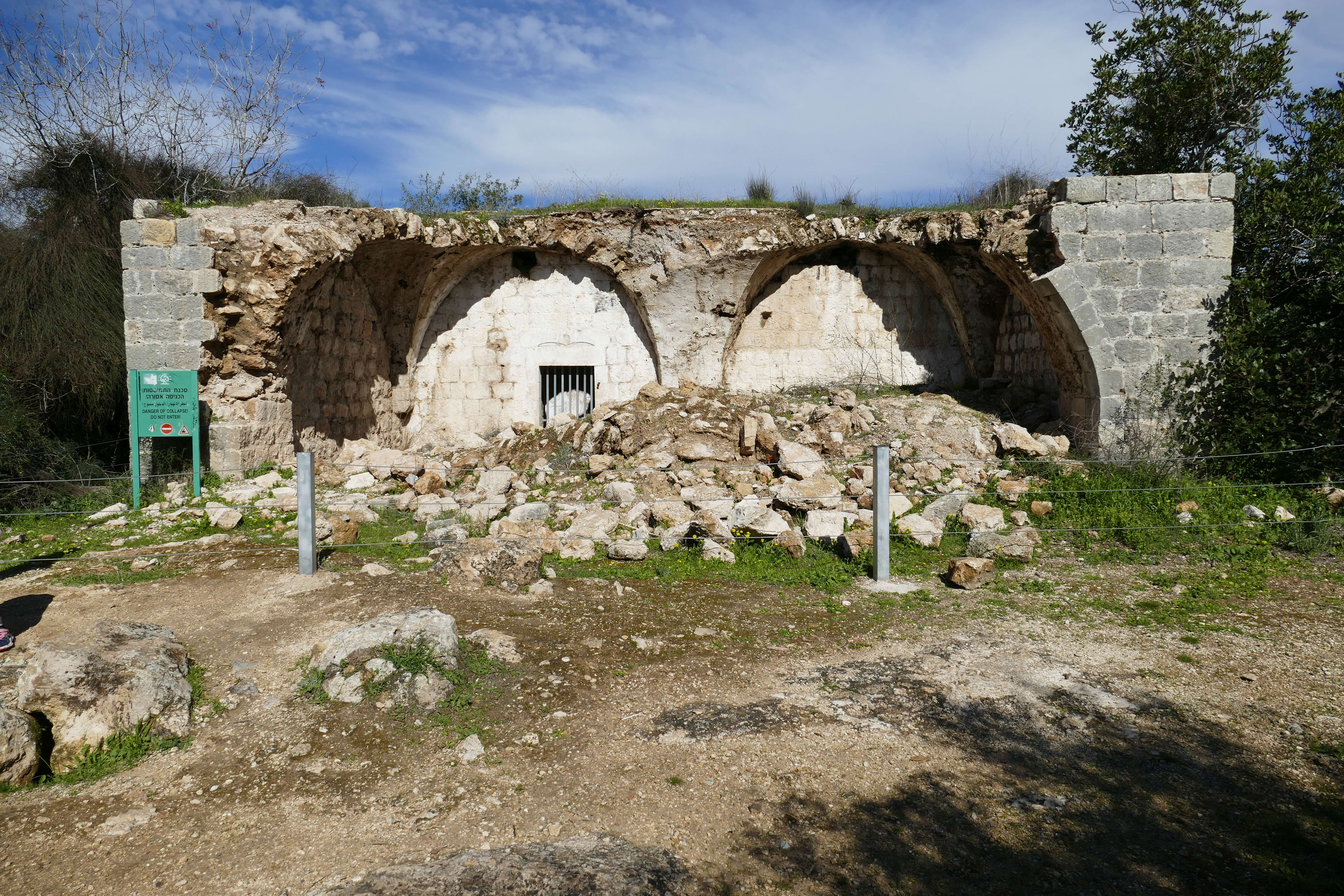 HaMasrek nature reserve near Beit Meir, Israel.